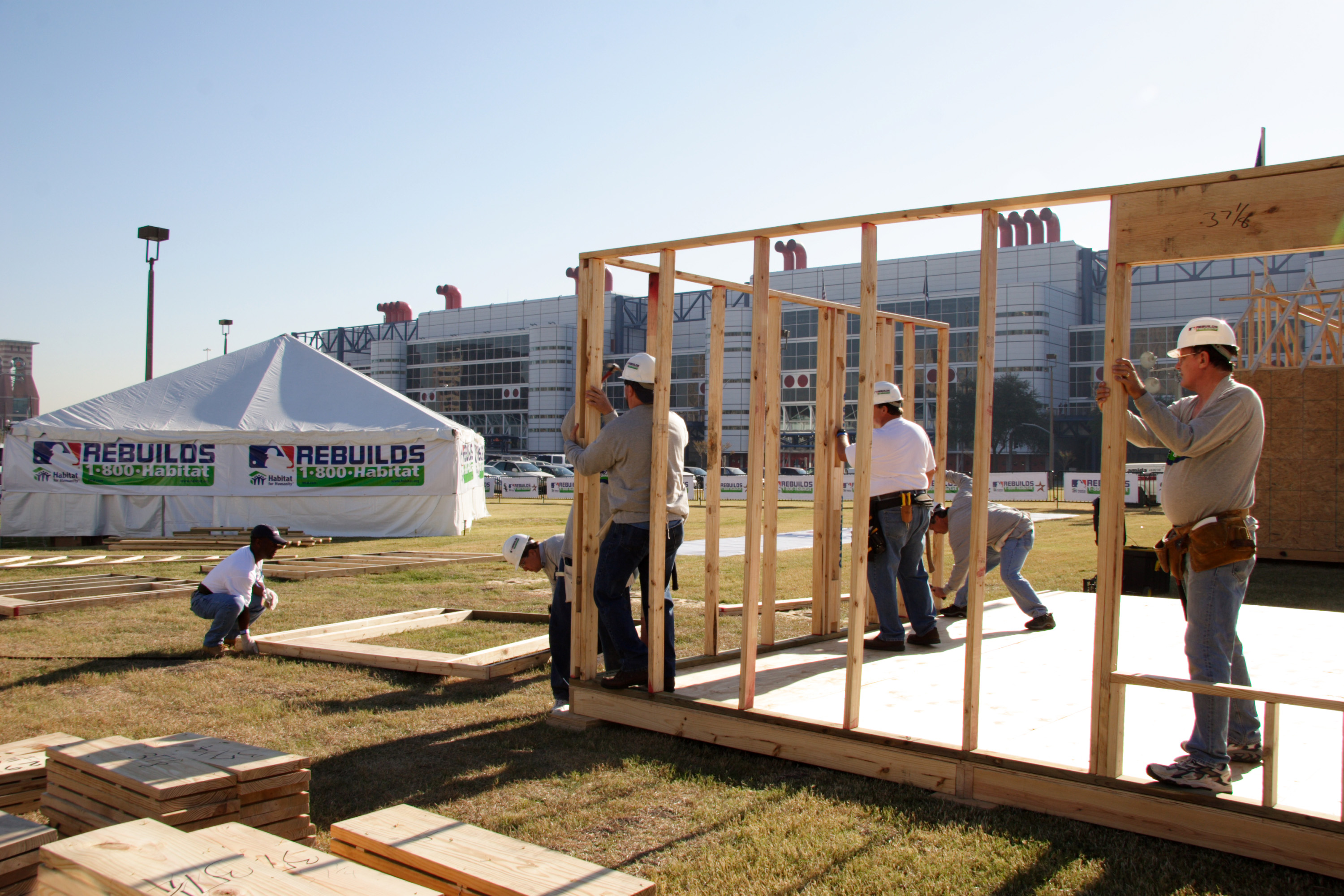 Houston, TX, October 26, 2005 -- Workers for Habitat for Humanity team up with major league baseball to build houses in the shadow of the George R.Brown Convention Center. These houses will be transported to Louisiana for victims of Hurricanes Katrina and Rita. FEMA coordinates many kinds of volunteer efforts. Photo by Ed Edahl/FEMA